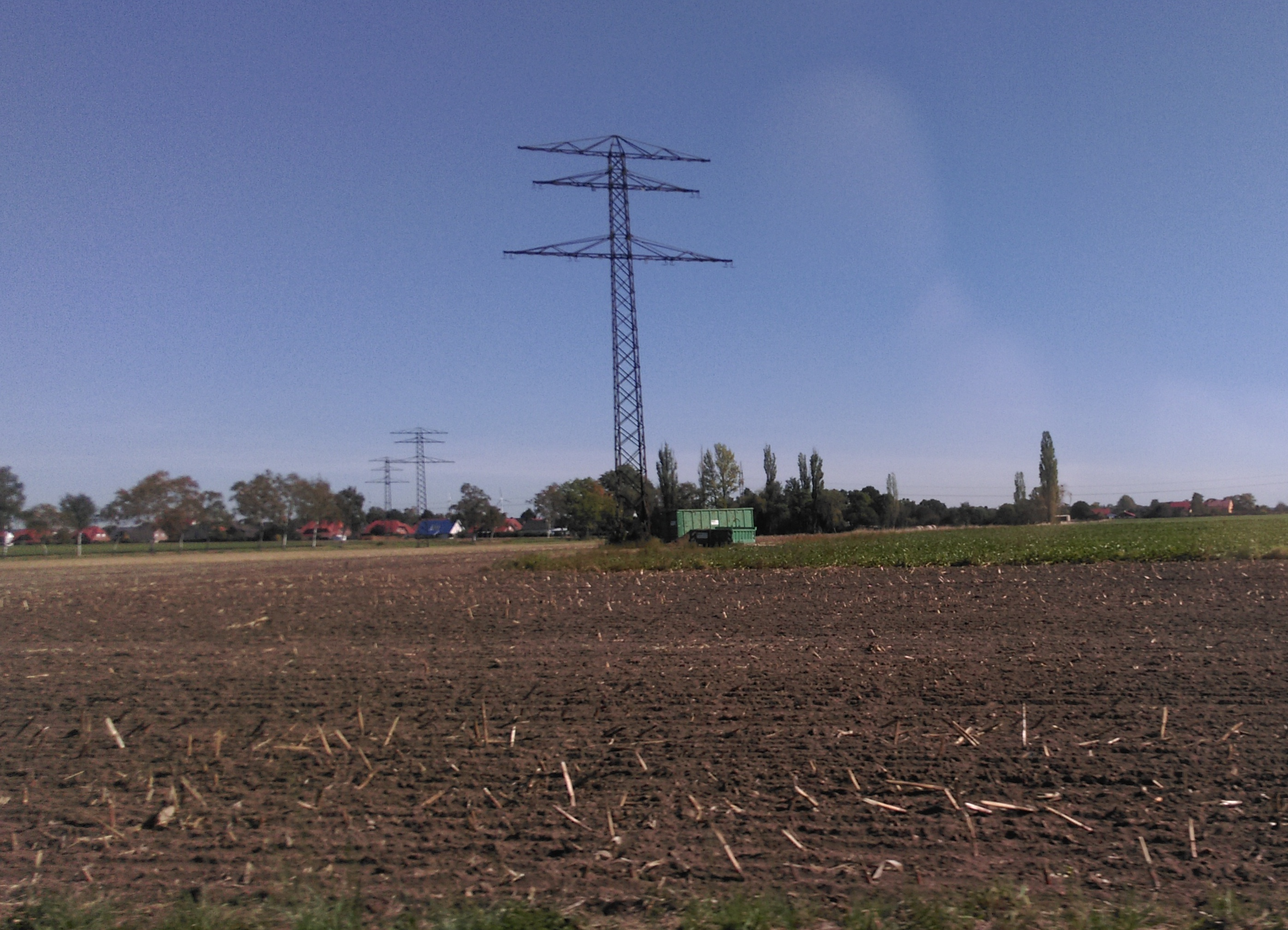 Defunct pylons of the power line close to Peine